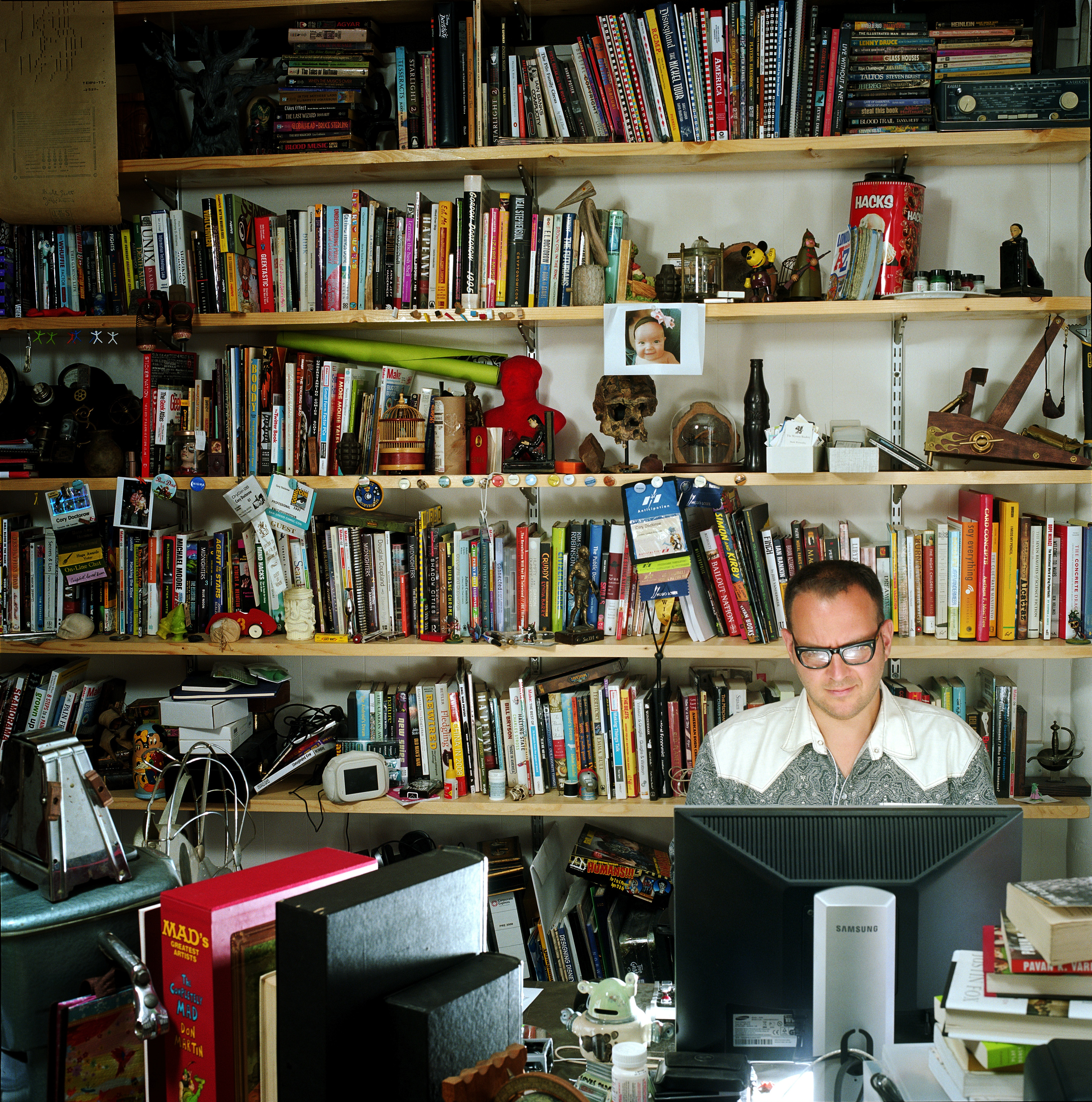 Cory Doctorow in his office